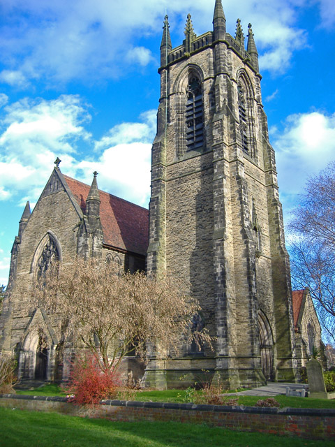 St Nicholas' parish church, Church Holme Lane, Beverley, East Riding of Yorkshire, England, seen from the southwest.